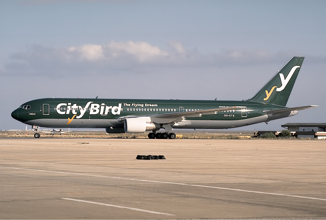 CityBird Boeing 767-300ER